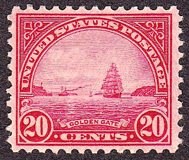 US Postage stamp, Golden gate, 20c, carmine